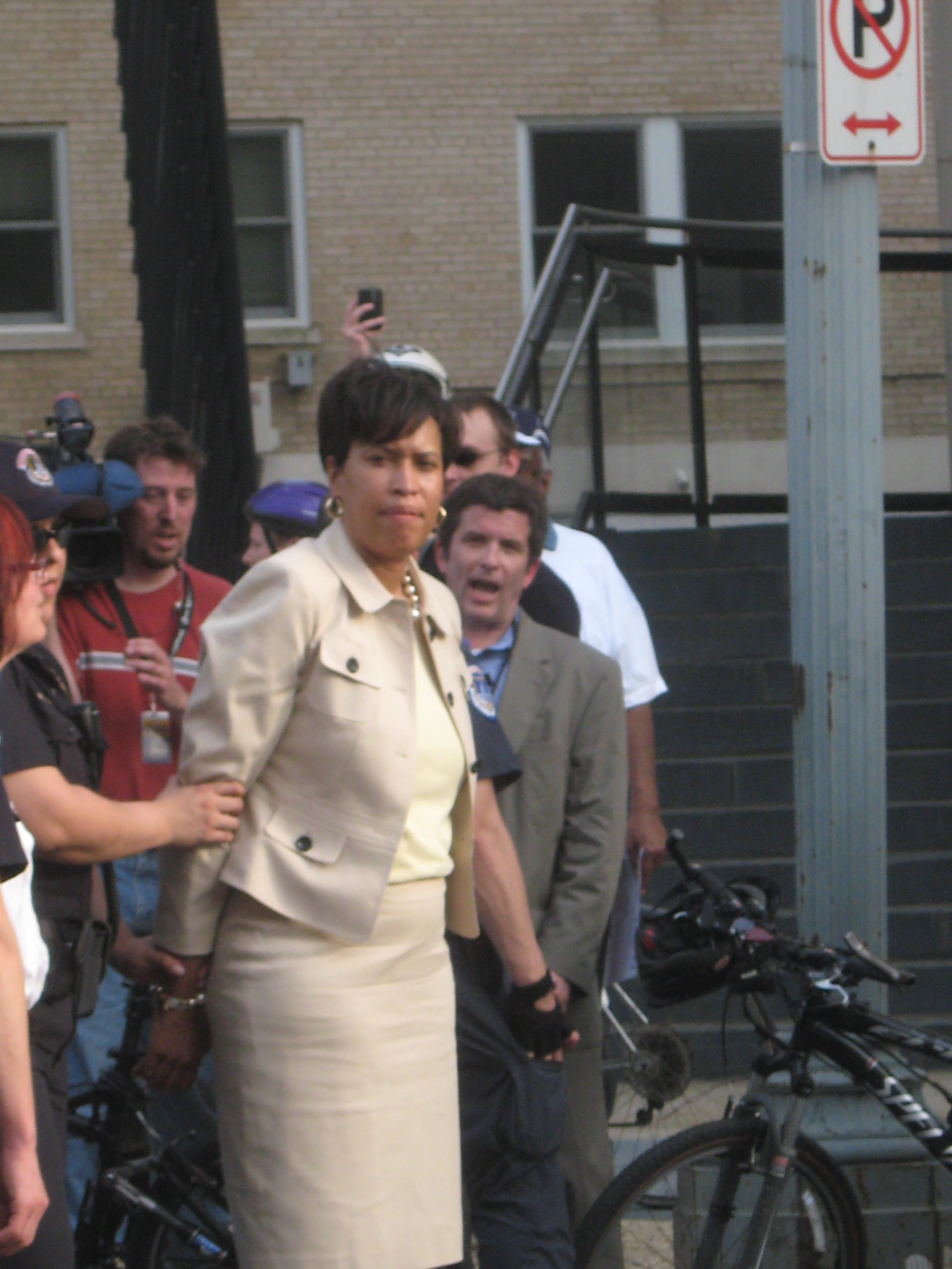 Muriel Bowser - 4/11/11 - Protest over congressional refusal, in 2011 budget, to allow DC use local funds for abortion procedures.